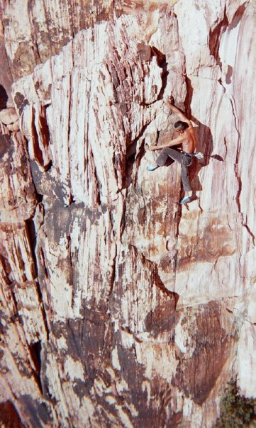 A climber free soloing at Red Rock Canyon, Nevada